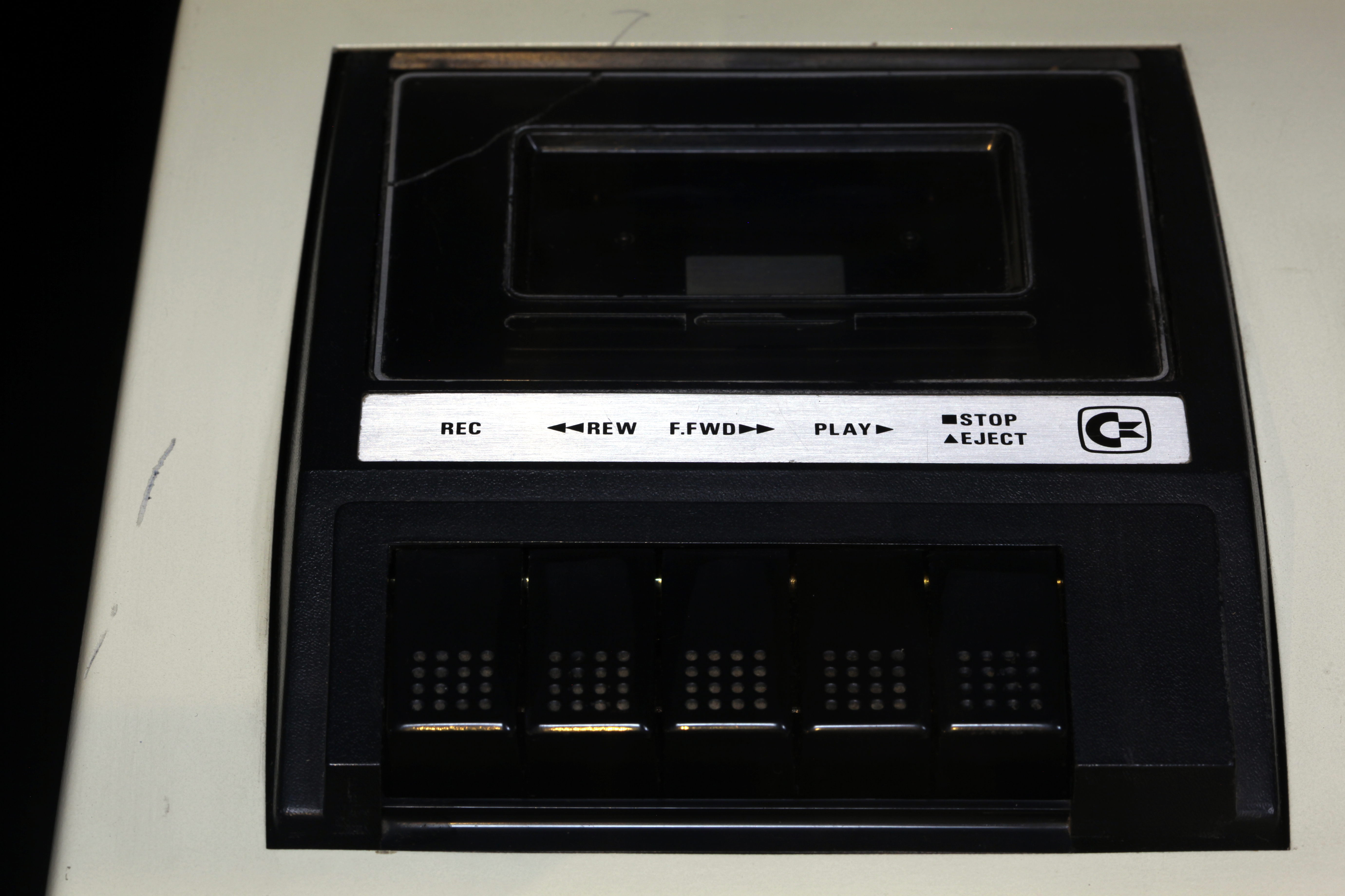 Commodore PET 2001 computer. On display at the Musée Bolo, EPFL, Lausanne. The making of this document was supported by Wikimedia CH. (Submit your project!) For all the files concerned, please see the category Supported by Wikimedia CH.